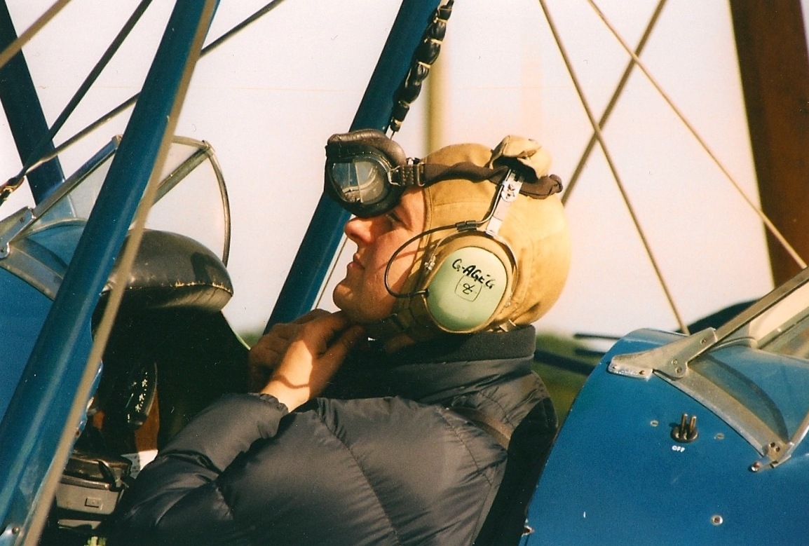 Patrick French in a Plane